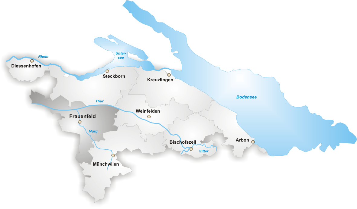 District Frauenfeld